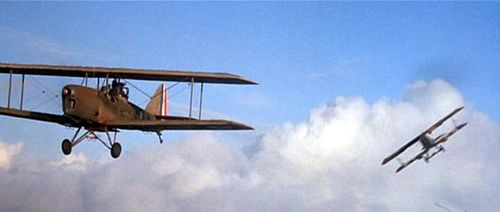 Pflalz D-111 attacks Caudron Luciols, Weston Aerodrome, Ireland 1965